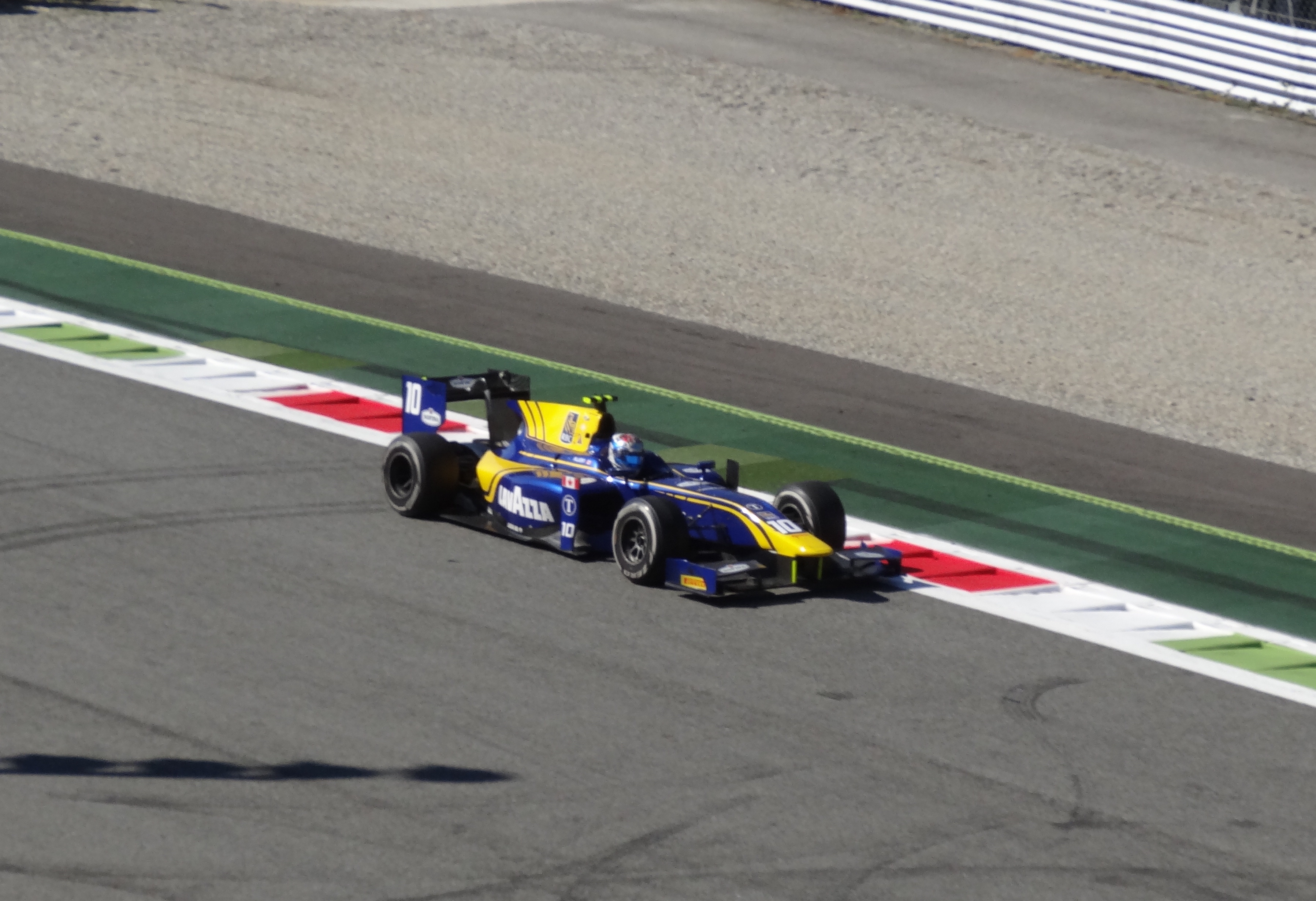 Nicholas Latifi Monza F2 2017